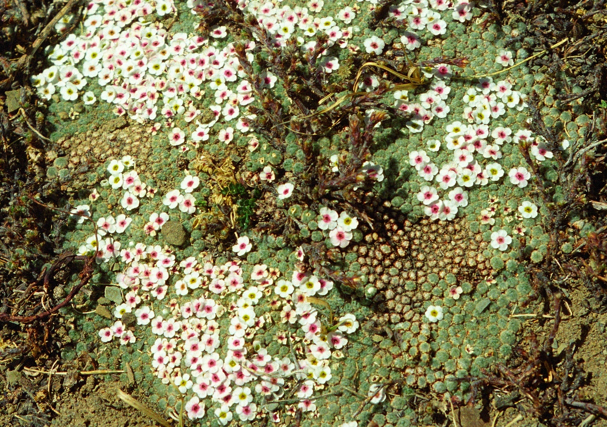 Androsace tapete in Tibet